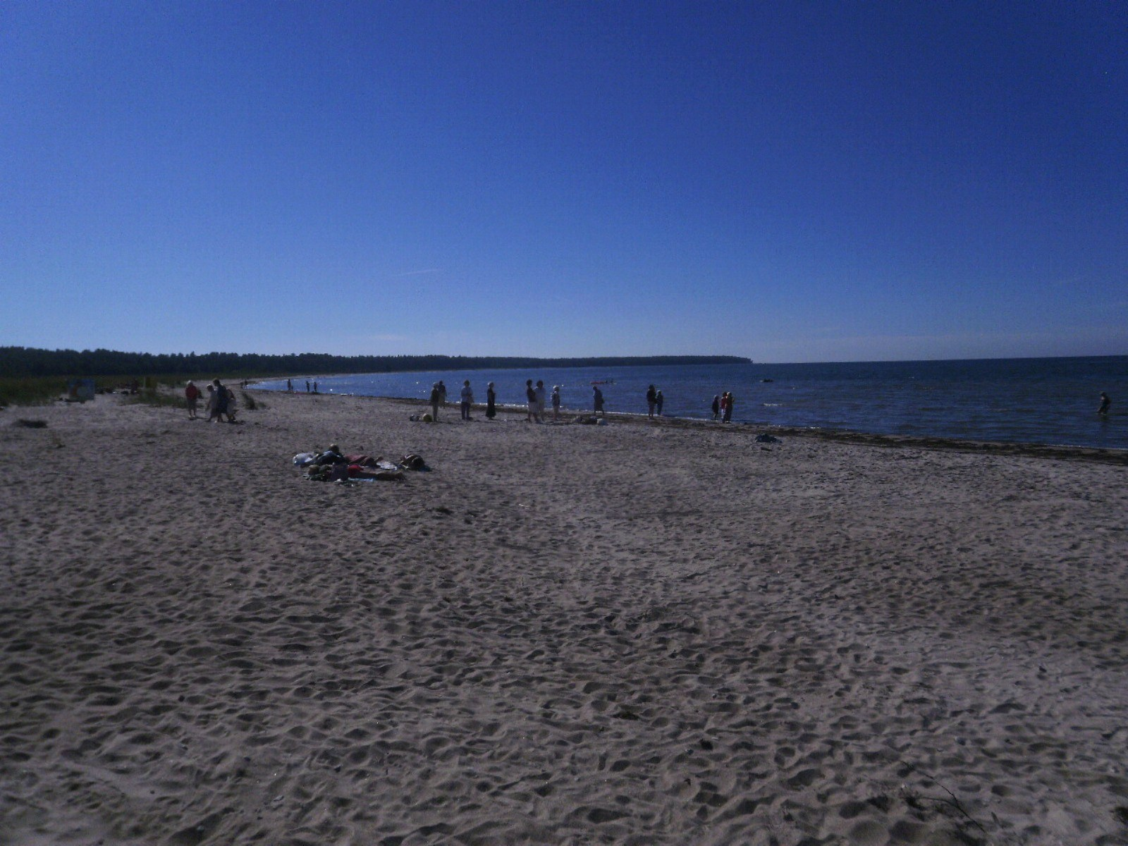 Luidja beach, Hiiumaa island, Estonia.